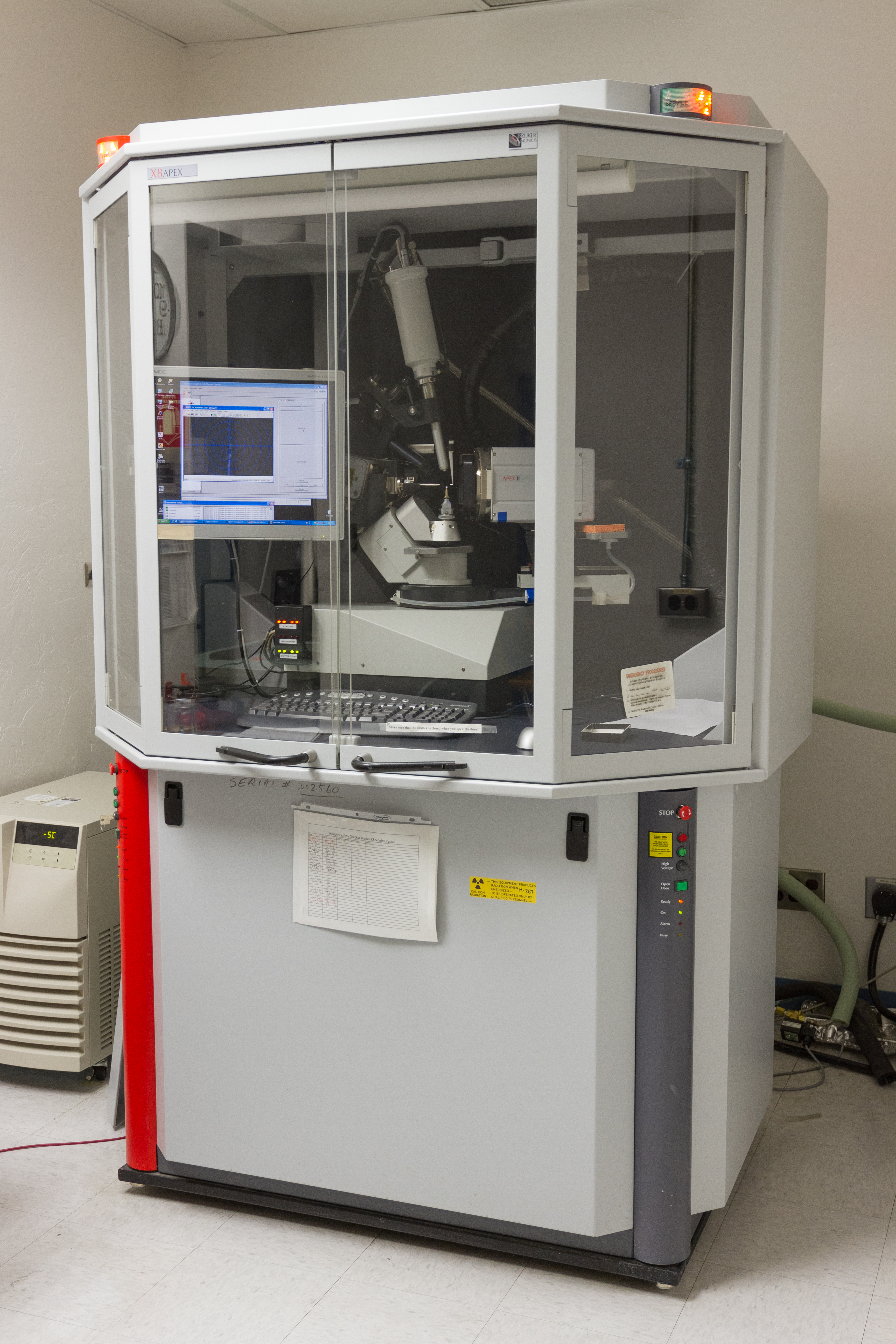 Wikipedia workshop and field trip with students of the University of Arizona GeoClub, February 2015.